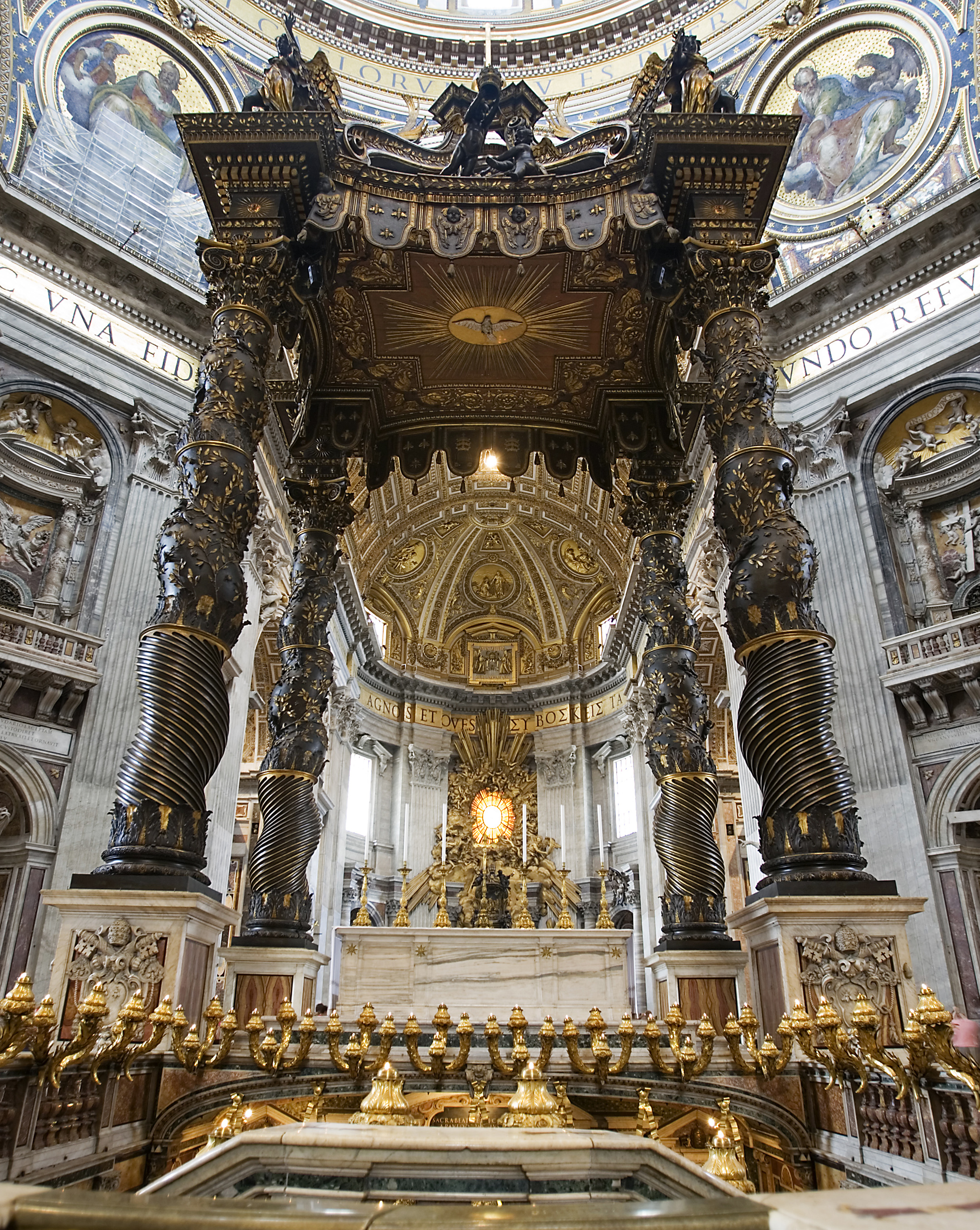 St. Peter's Baldachin by Gian Lorenzo Bernini